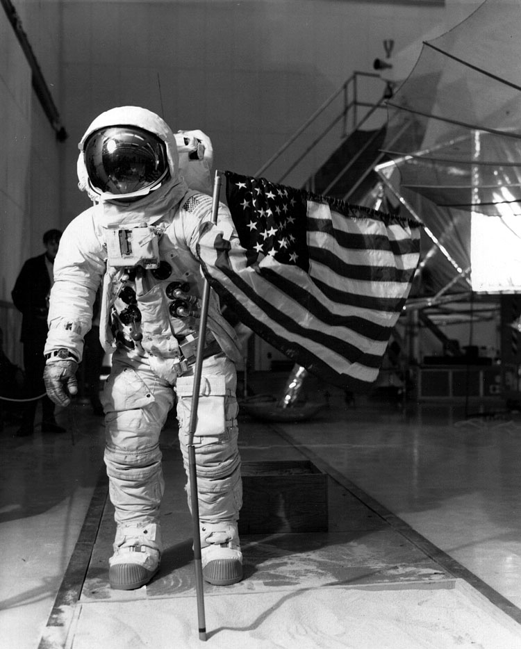 From the Apollo Lunar Surface Journal (link below) "Jim Lovell practices flag deployment. NASA photo number not stated.